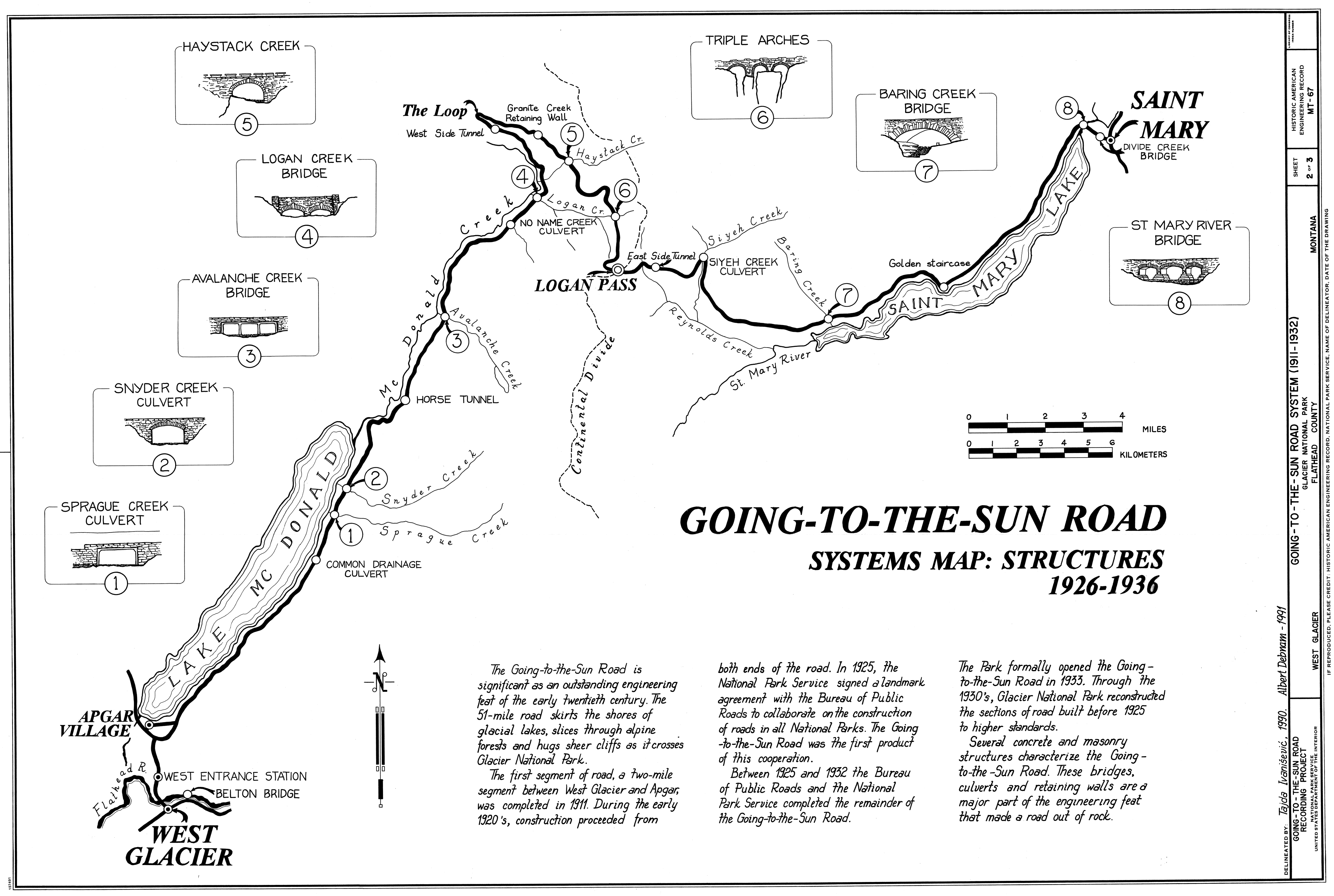 Map of the Going to the Sun Road, with details of bridges and culverts, designed to fit into the landscape. Within Glacier National Park, Montana. As designed in 1924 by Frank Kittredge. Map drawn for, and from, the HABS—Historic American Buildings Survey images of Montana.